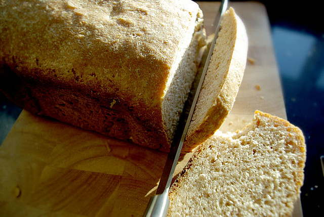 Spelt bread